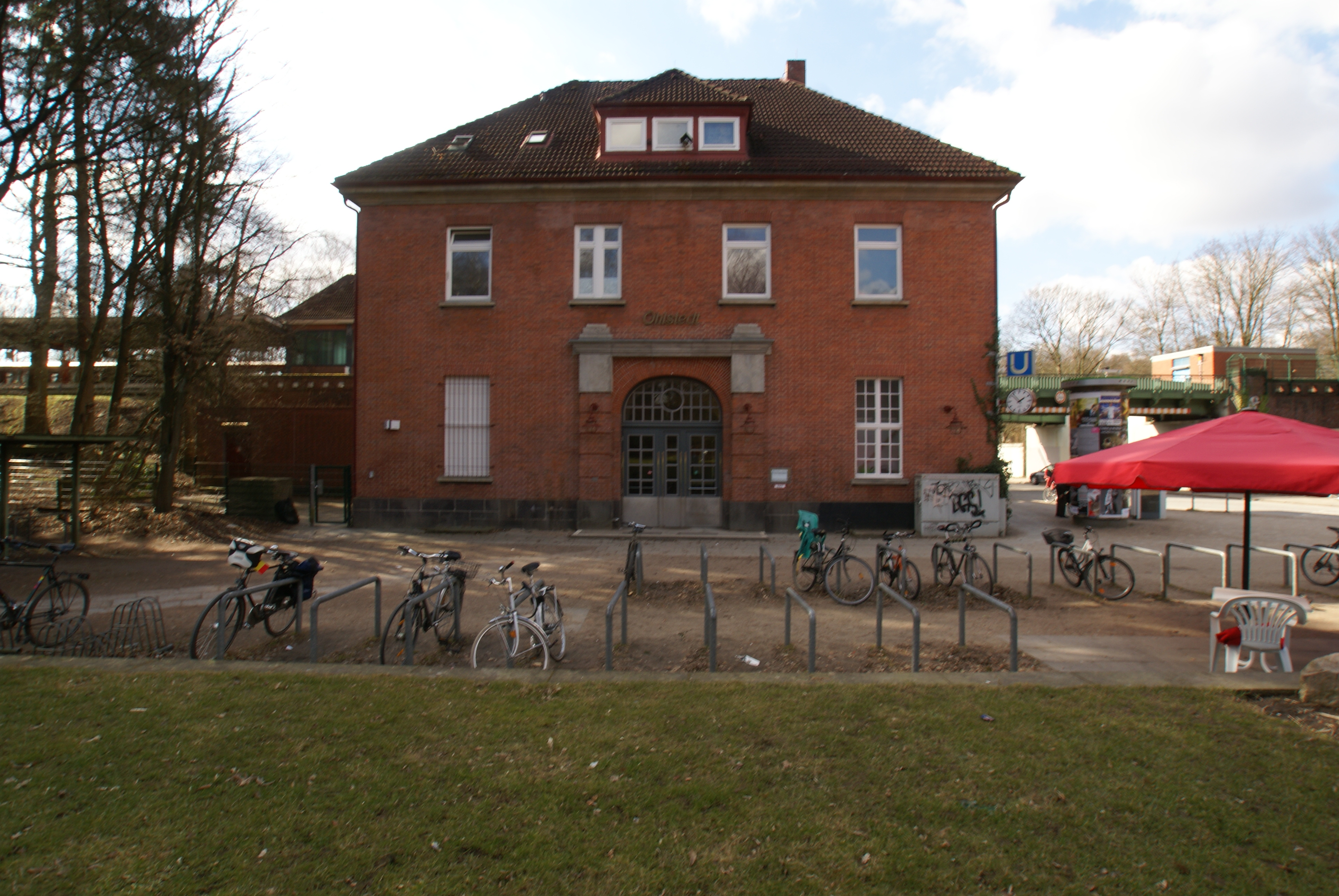 Hamburg (Wohldorf-Ohlstedt), Germany: End station of the underground line U1 (Hamburg)